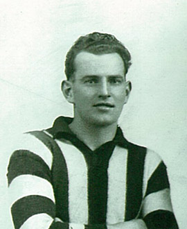 Photo of Len Murphy from 1928-1937